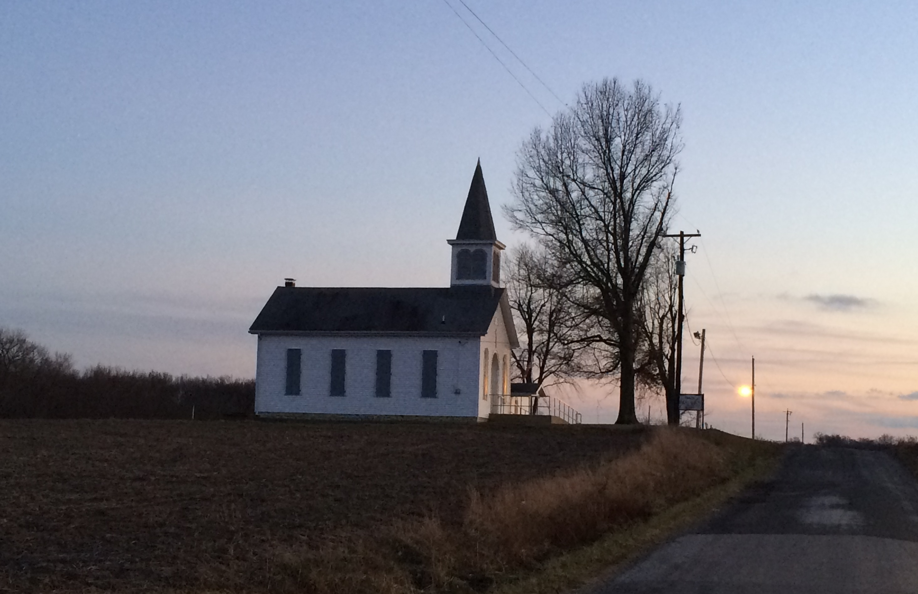 Country Bible Church just south of Woodburn, Illinois